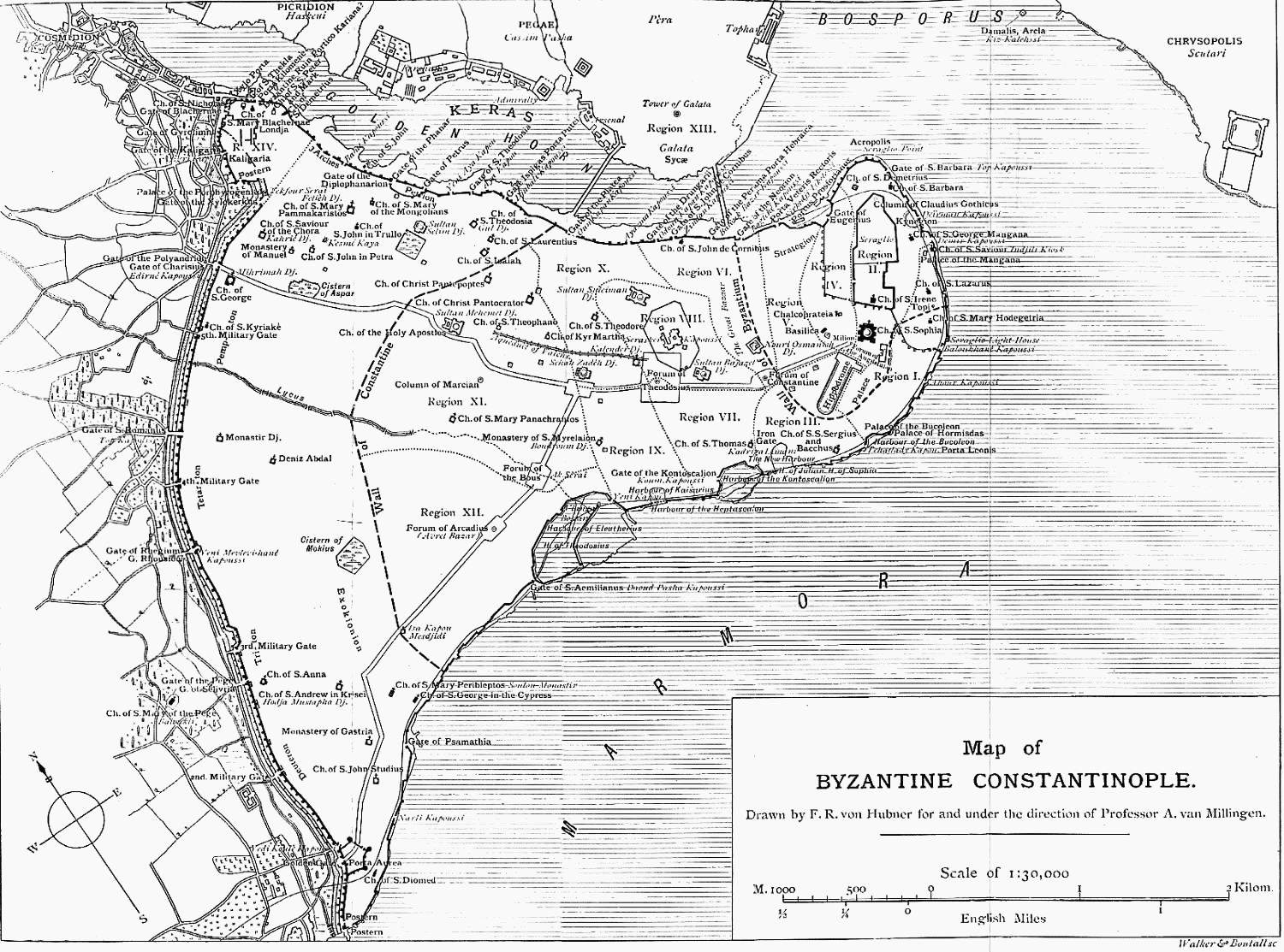 Detailed map of the City of Constantinople and its most important buildings in Byzantine times.